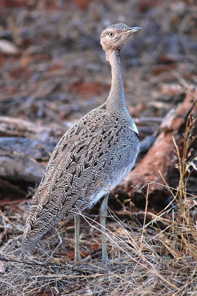 Red-crested Bustard, Eupodotis ruficrista (ssp. gindiana) Original description: Samburu Kenya 2005. Samburu is known as the best place to watch this bustard. Its brighter eyes are typical.